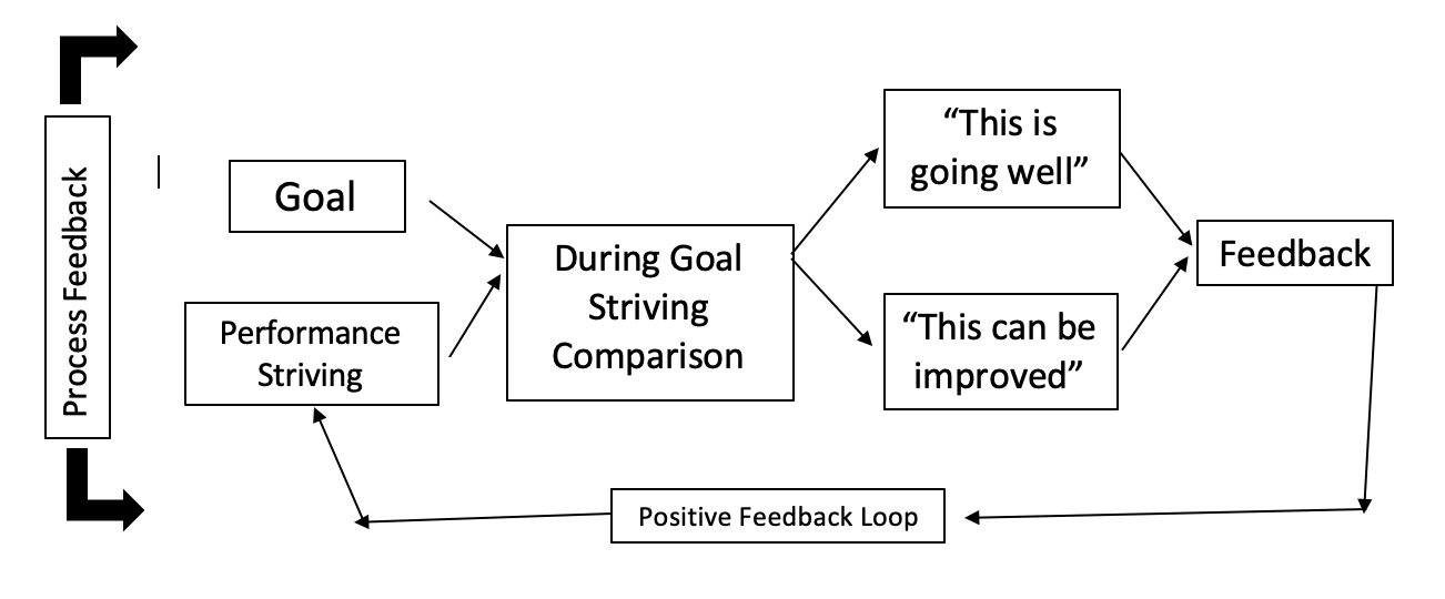 This is an example of a process feedback loop